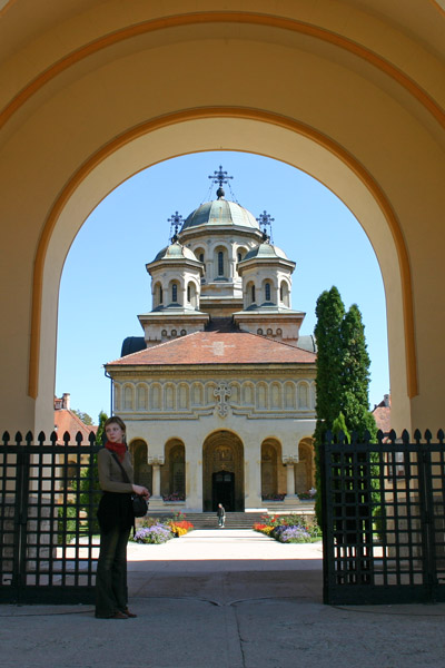 Quelle Image:Alba Iulia Orthodox Cathedral.jpg 01